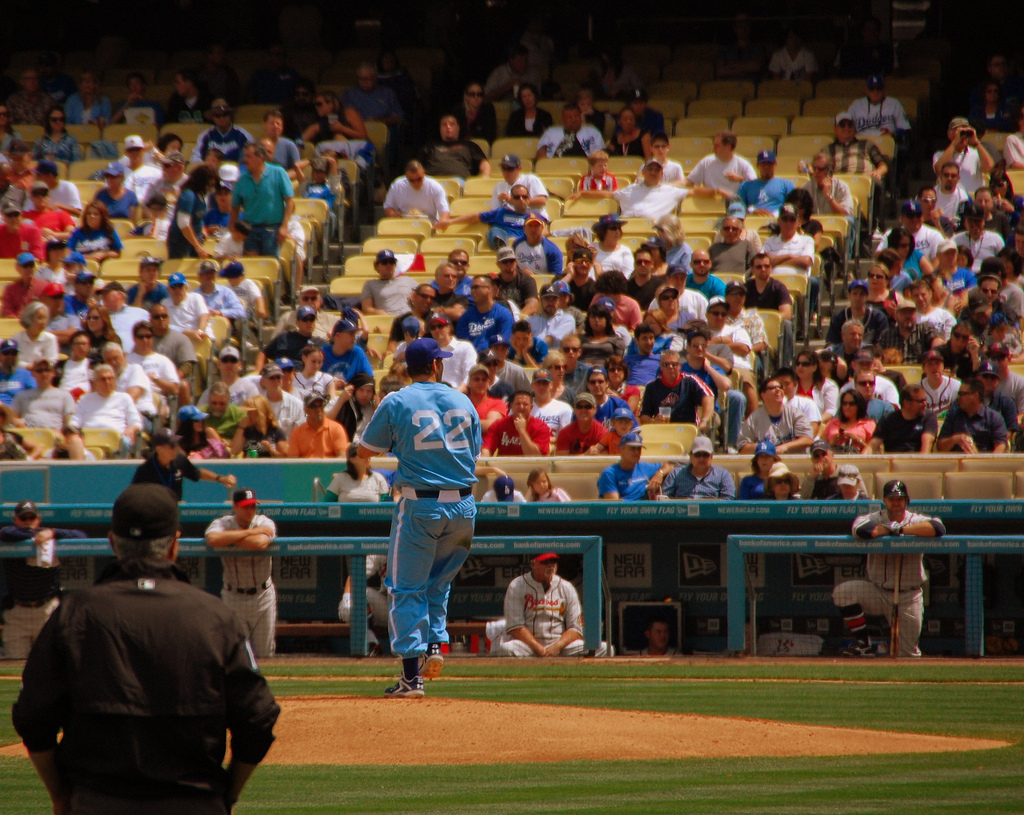 Clayton Kershaw pitching on Brooklyn Dodgers throwback day